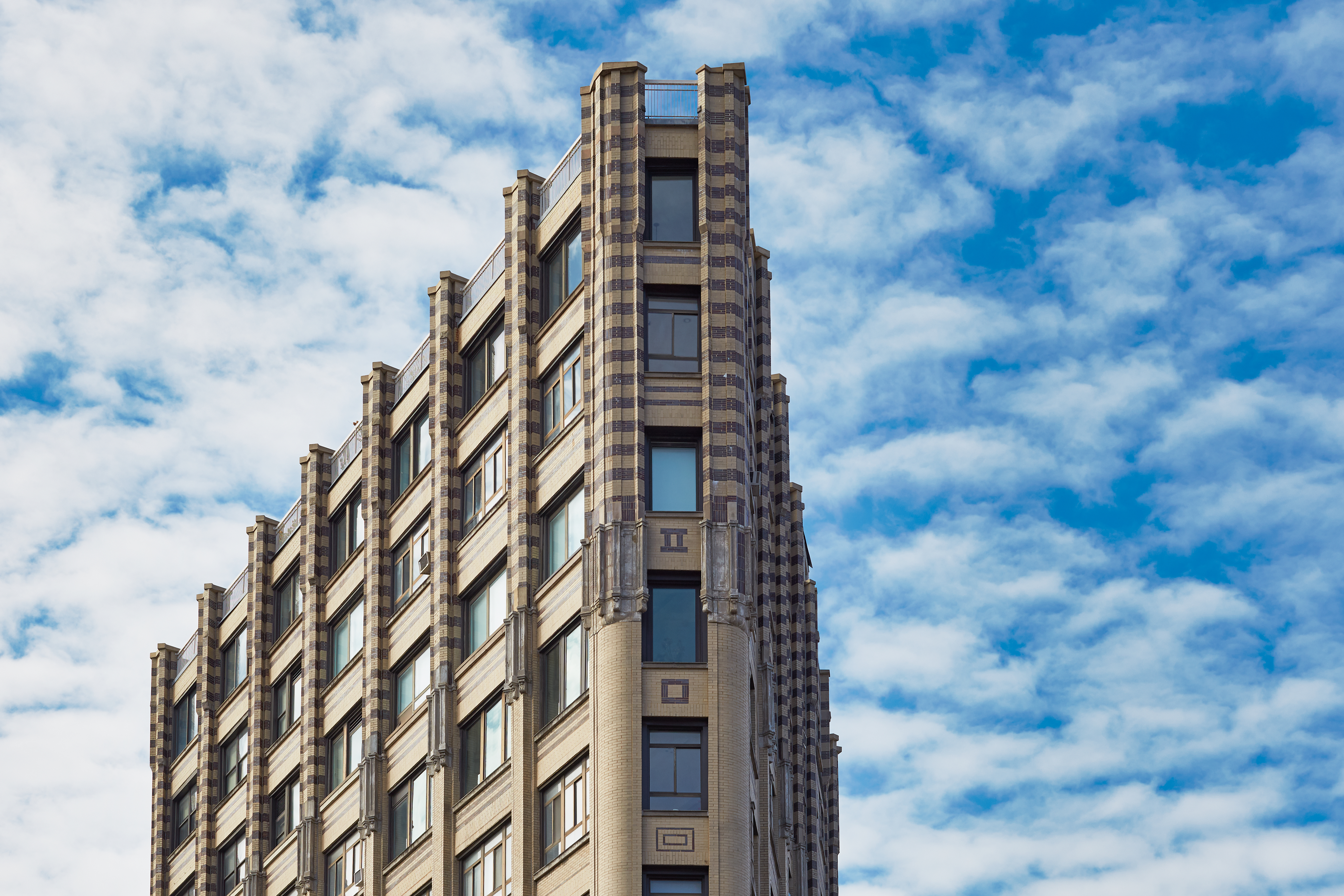 West Village residential building on 333 Avenue of the Americas embedded in the sky.